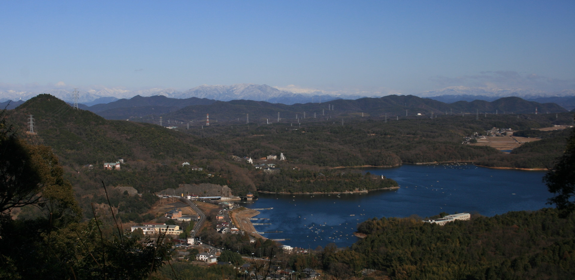 Lake Iruka from_Owari-Hakusan